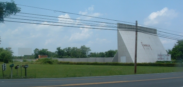 Family Drive-In Theatre, just south of Stephens City, Virginia